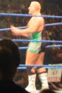 Picture of Finlay, taken on 5 March at the Boondall Entertainment Centre.